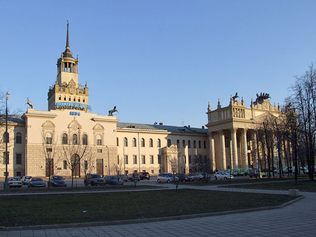 Moscow Hippodrome